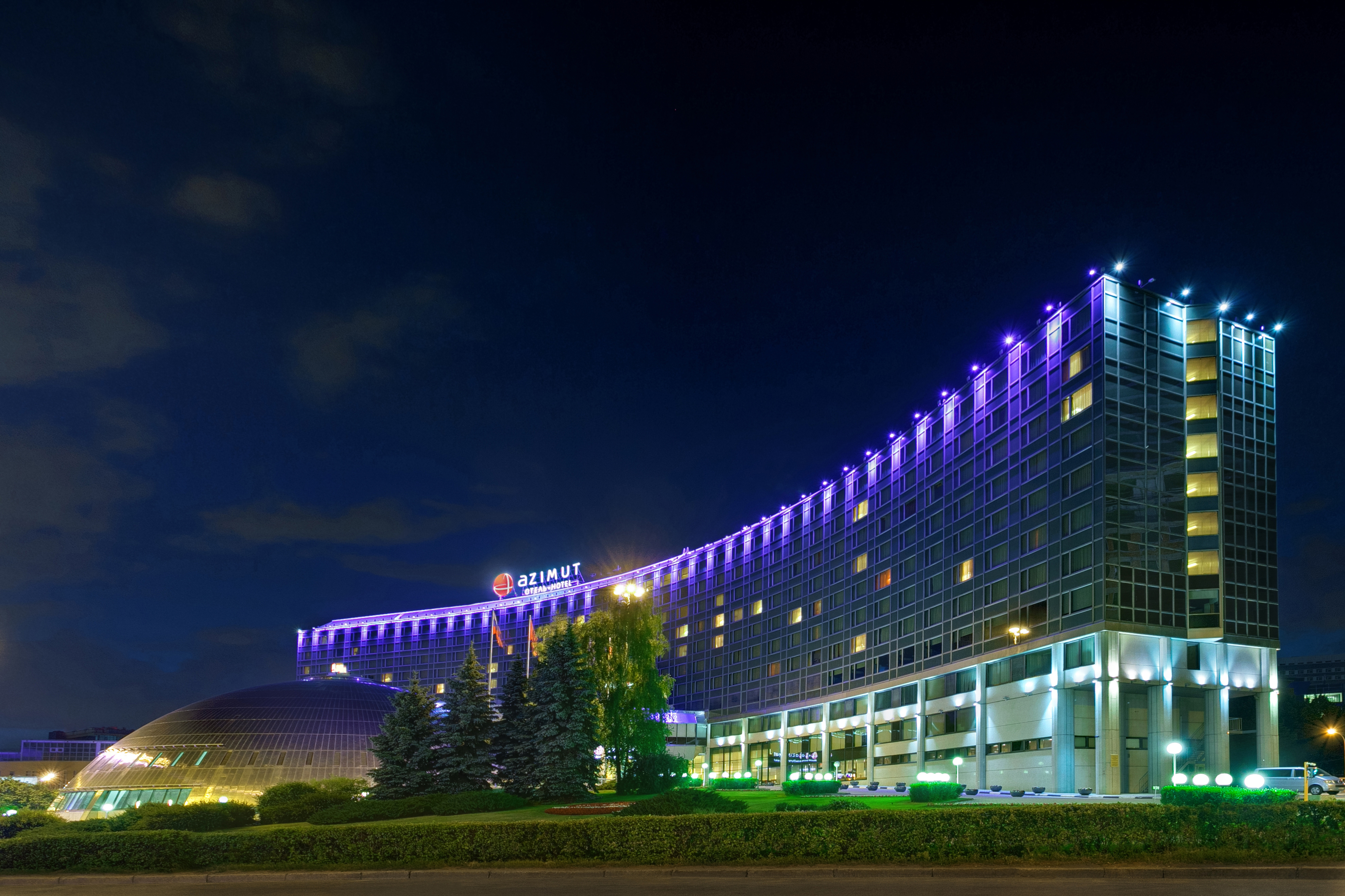 Azimut Moscow Hotel Olympic. Azimut Hotels chains